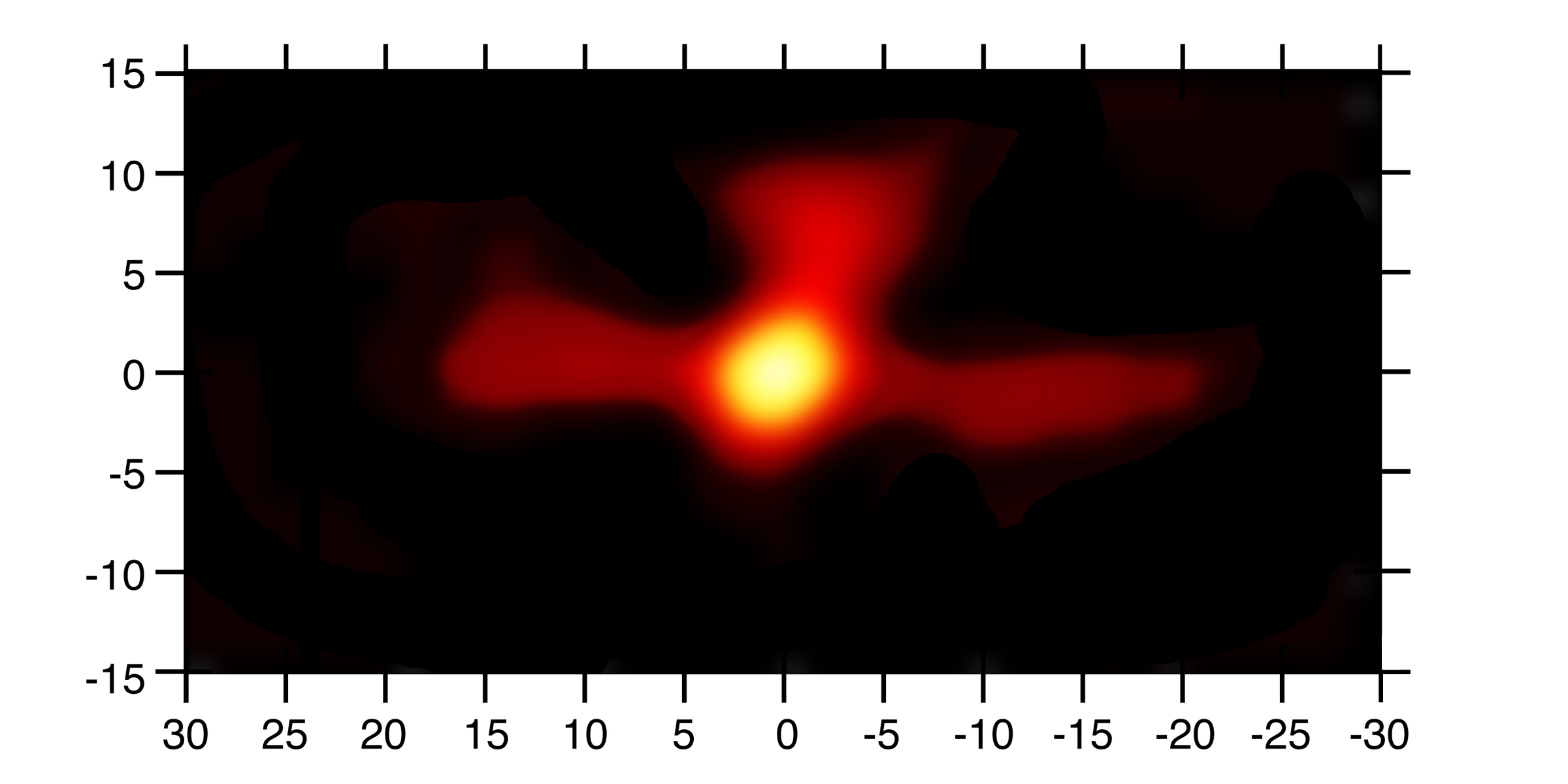 Map of the distribution of positrons towards the center of the Milky Way Galaxy, including the newly discovered antimatter "cloud". The brightest feature corresponds to the nucleus of the Galaxy. The horizontal structure lies along the plane of the Galaxy. The antimatter "cloud" is located above the Galactic center.